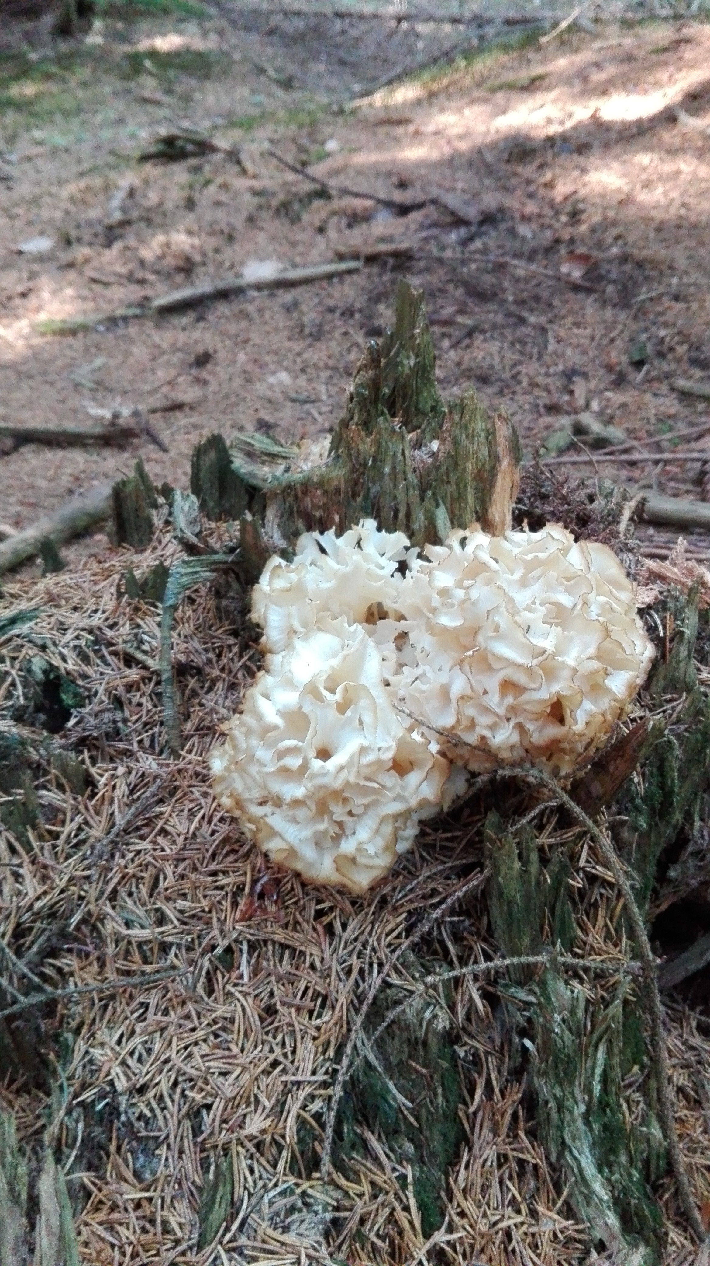 Sparassis nemecii